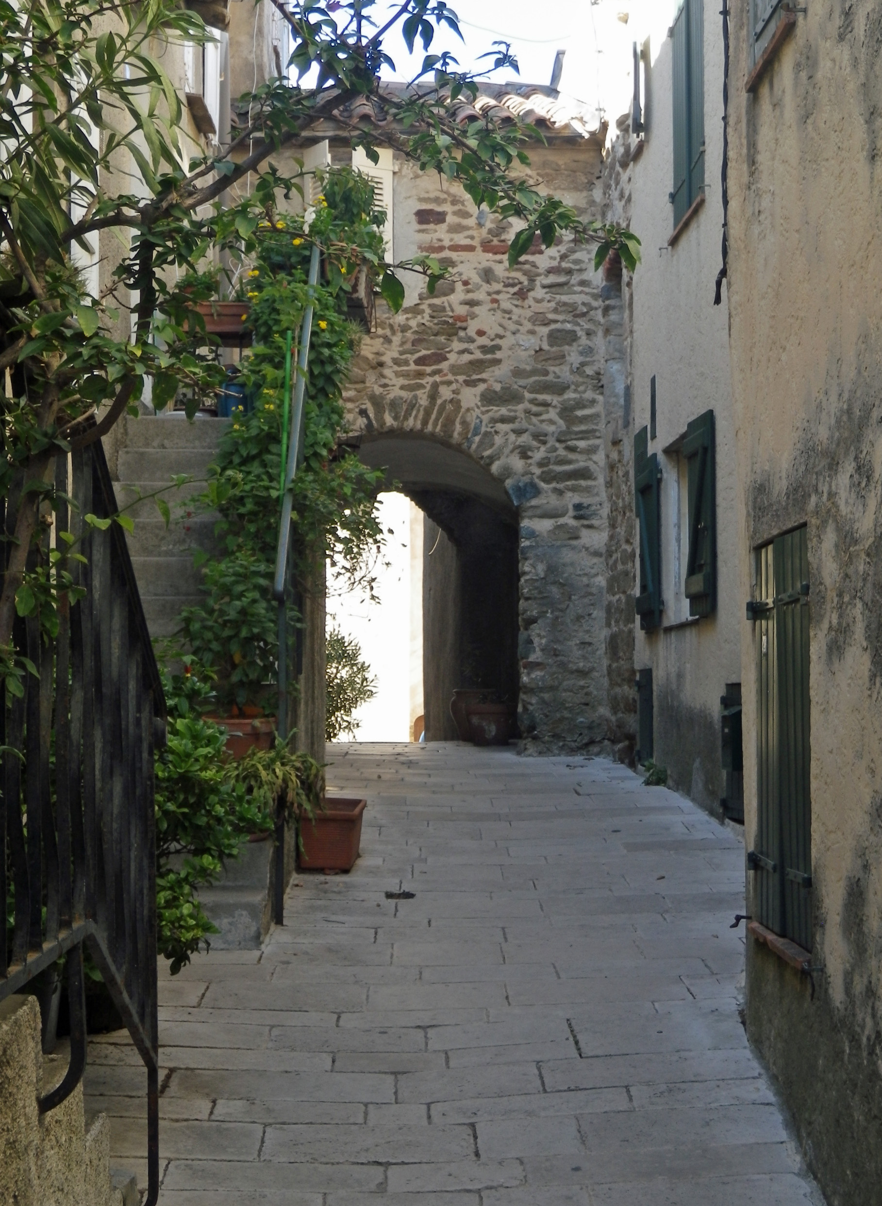 Gassin (departement Var, France), old town